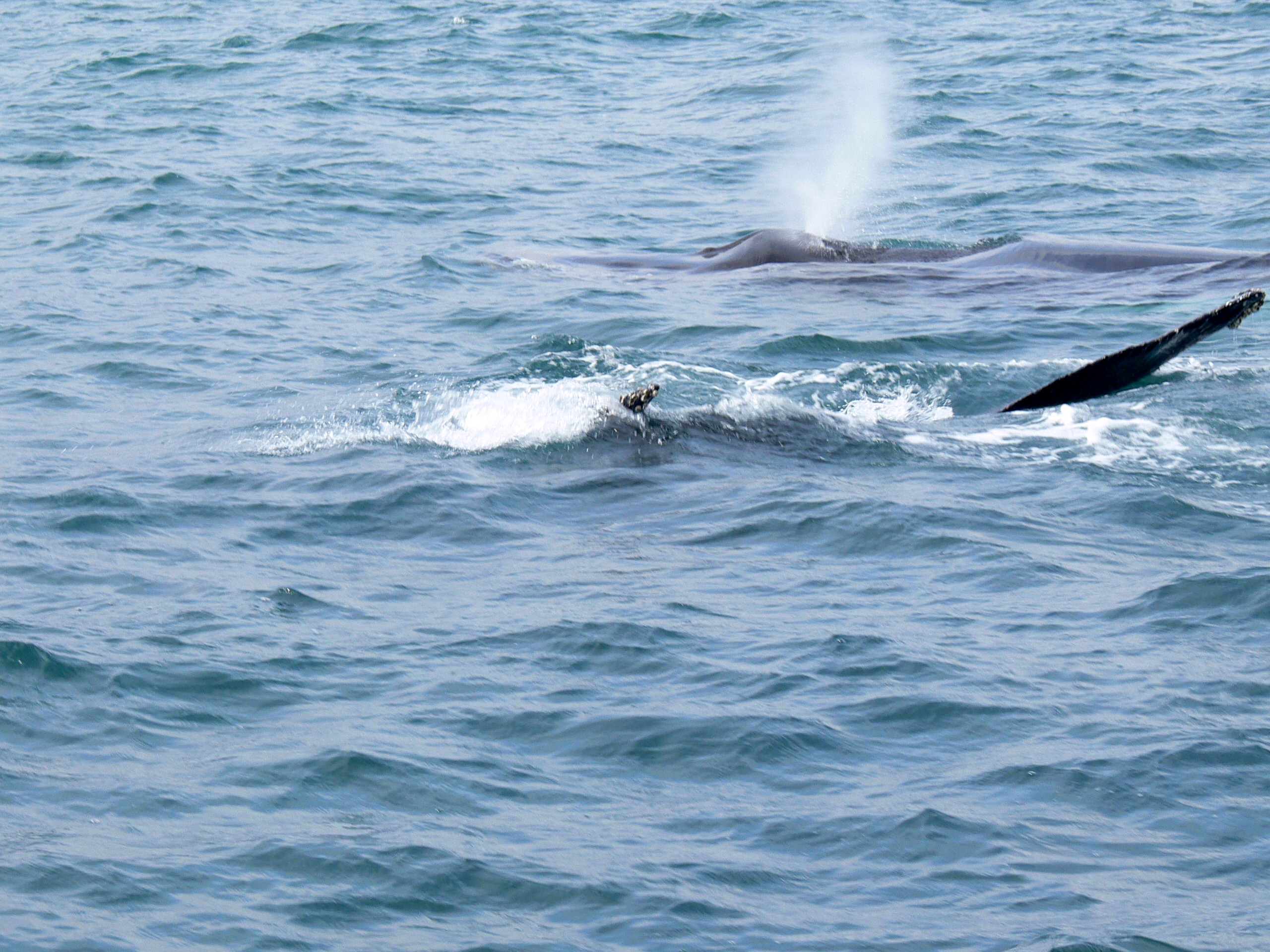 Húsavík, Iceland. Two humpback whales, one of them blowing out.